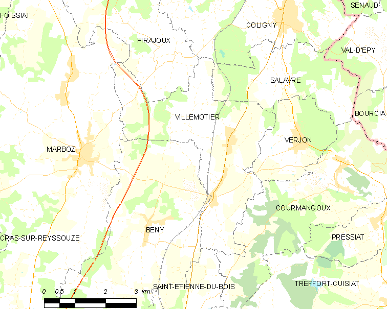 Map of French commune: Villemotier Map commune FR insee code 01445.png